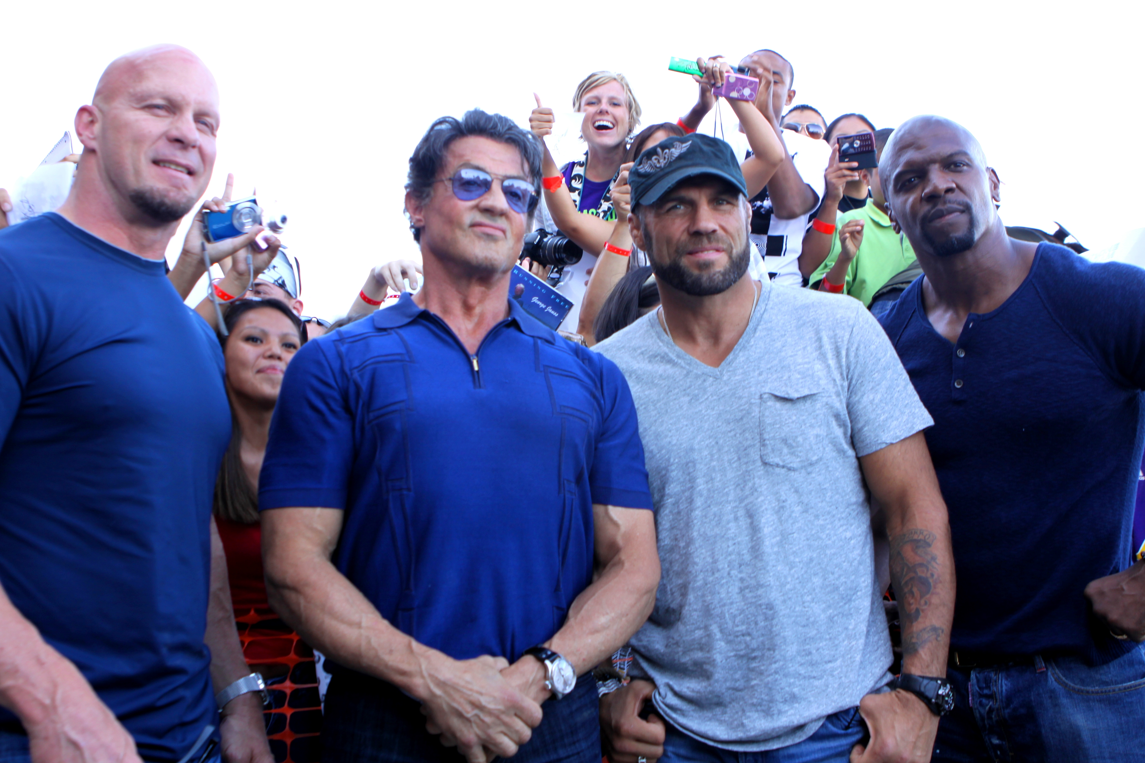 (From left to right) Steve Austin, Sylvester Stallone, Randy Couture and Terry Crews make an appearance at a special screening of the new action film, “The Expendables,” at Camp Pendleton’s base theater, June 24. Stallone and his costars were dropped off at the theater in humvees to a crowd of roaring service members and their families. The celebrities posed for photos and signed autographs before entering the theater to introduce their film. The movie is scheduled to be released in theaters Aug. 13.